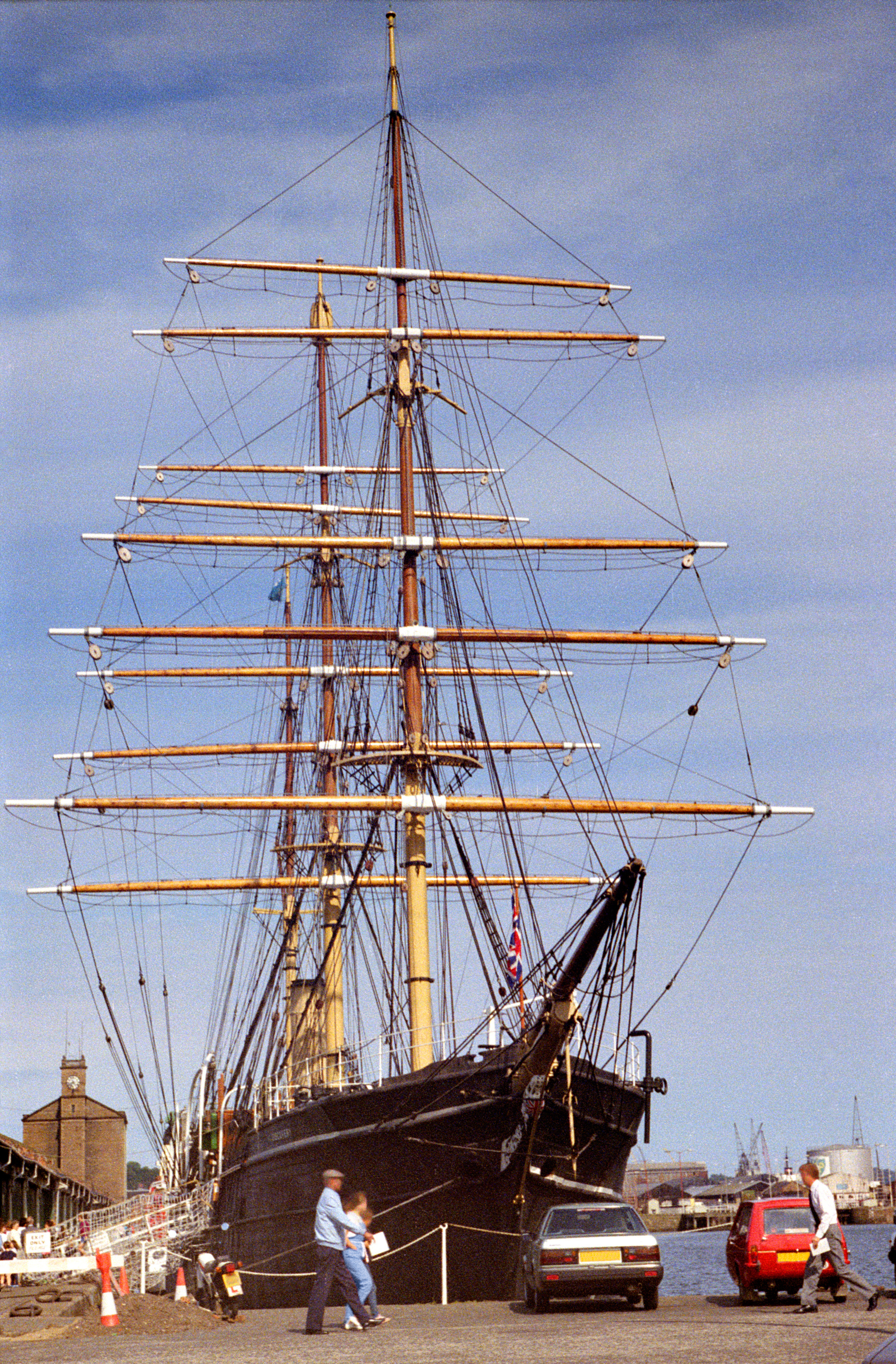 RRS Discovery in Victoria Dock, Dundee (now the site of City Quay). This was shortly after it returned to Dundee in 1986, before moving to Discovery Point nearby.